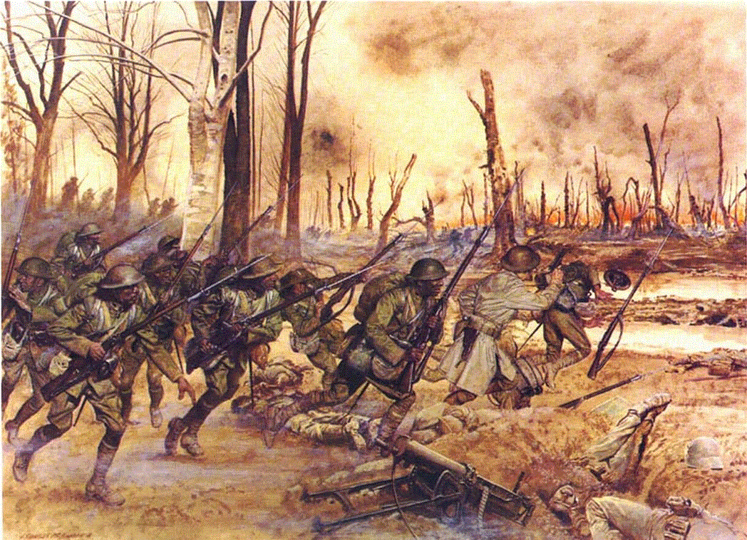 Hell Fighters from Harlem, painting by H. Charles McBarron, Jr. The 369th Infantry fought valiantly in the Meuse-Argonne as part of the French 161st Division. Attacking behind a fiery barrage, the 369th Infantry assaulted successive German trench lines and captured the town of Ripont. On 29 September, the regiment stormed powerful enemy positions and took the town of Sechault. Despite heavy casualties, the 369th, called “Hell Fighters” by the French and Germans, relentlessly continued the attack at dawn. Raked by enemy machine guns, they assaulted in the woods northeast of Sechault, flanking and overwhelming enemy machine gun positions. The “Let’s Go!” elan and indomitable fighting spirit of the 369th Infantry was illustrated throughout the battle. Their initiative, leadership, and gallantry won for their entire regiment the French Croix de Guerre.